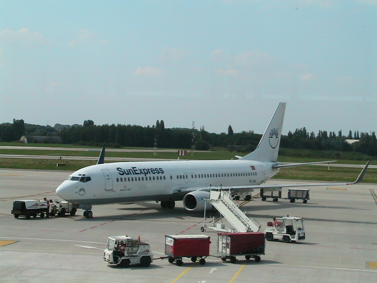 A SunExpress Boeing 737